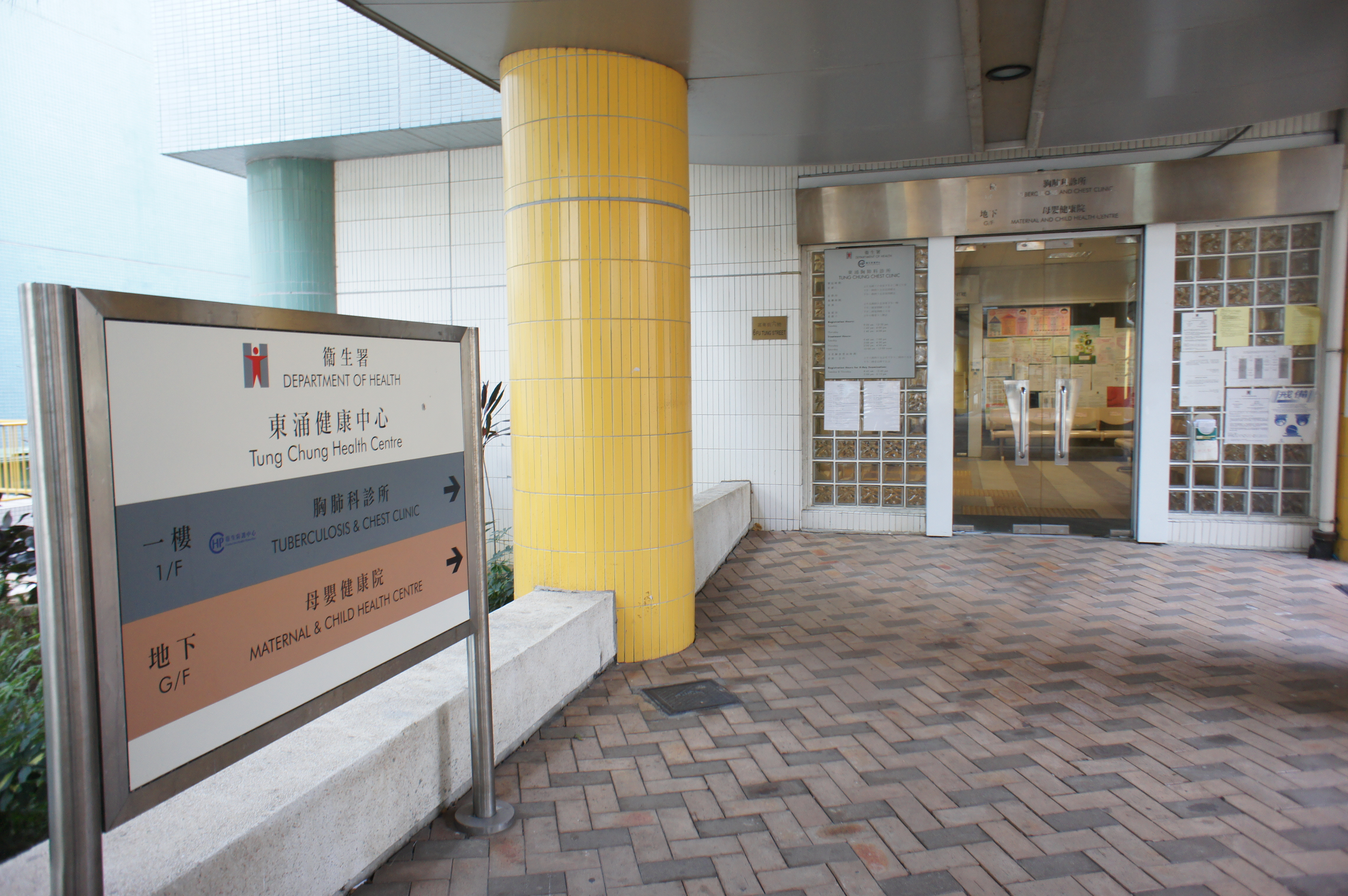 Entrance of the Tung Chung Health Centre in Lantau Island, Hong Kong.